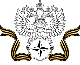 Logo of the Permanent Representative of Russia to NATO